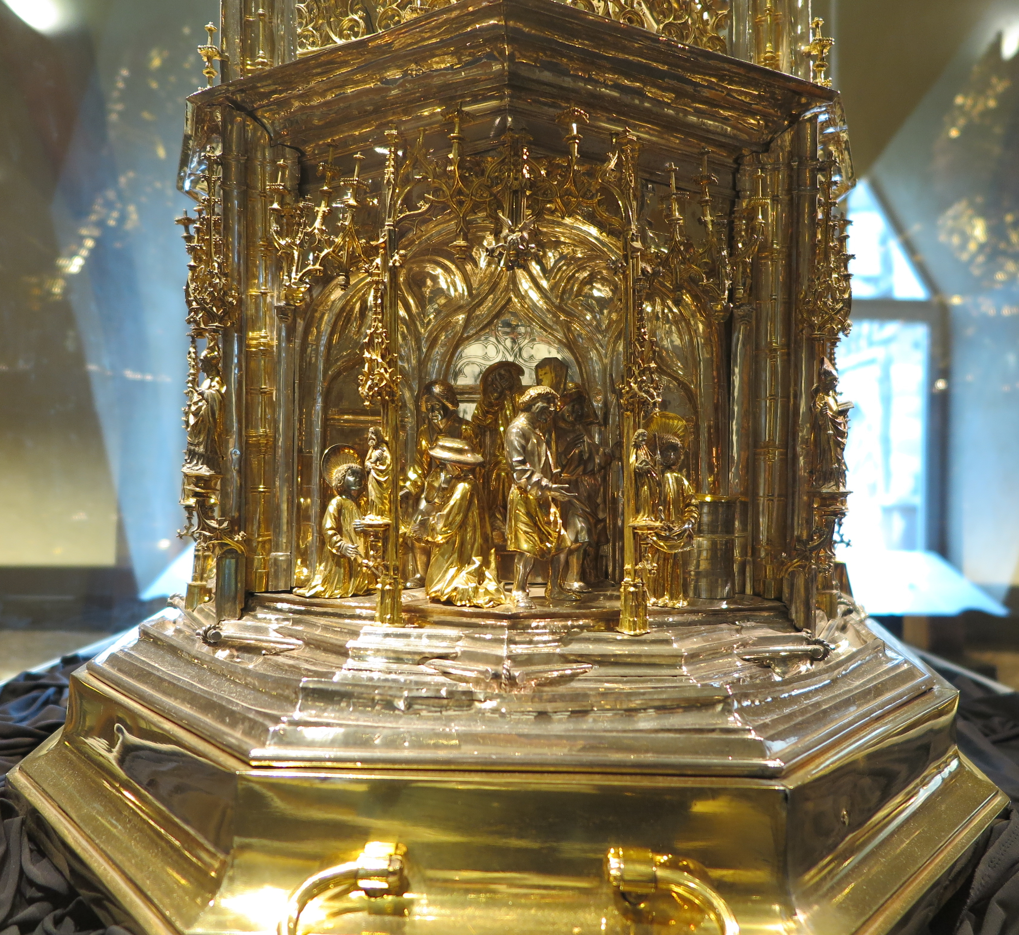 Left base of the reliquary of Saint Lambert, the largest late Gothic reliquary bust of Europe, in the treasury of St. Paul's Cathedral in Liège.